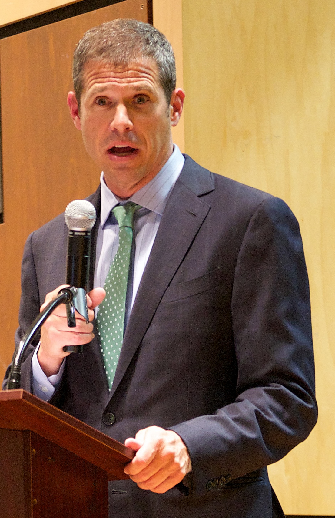 Boston Celtics president Rich Gotham speaks at a US Department of Education town hall meeting in Mattapan, MA.